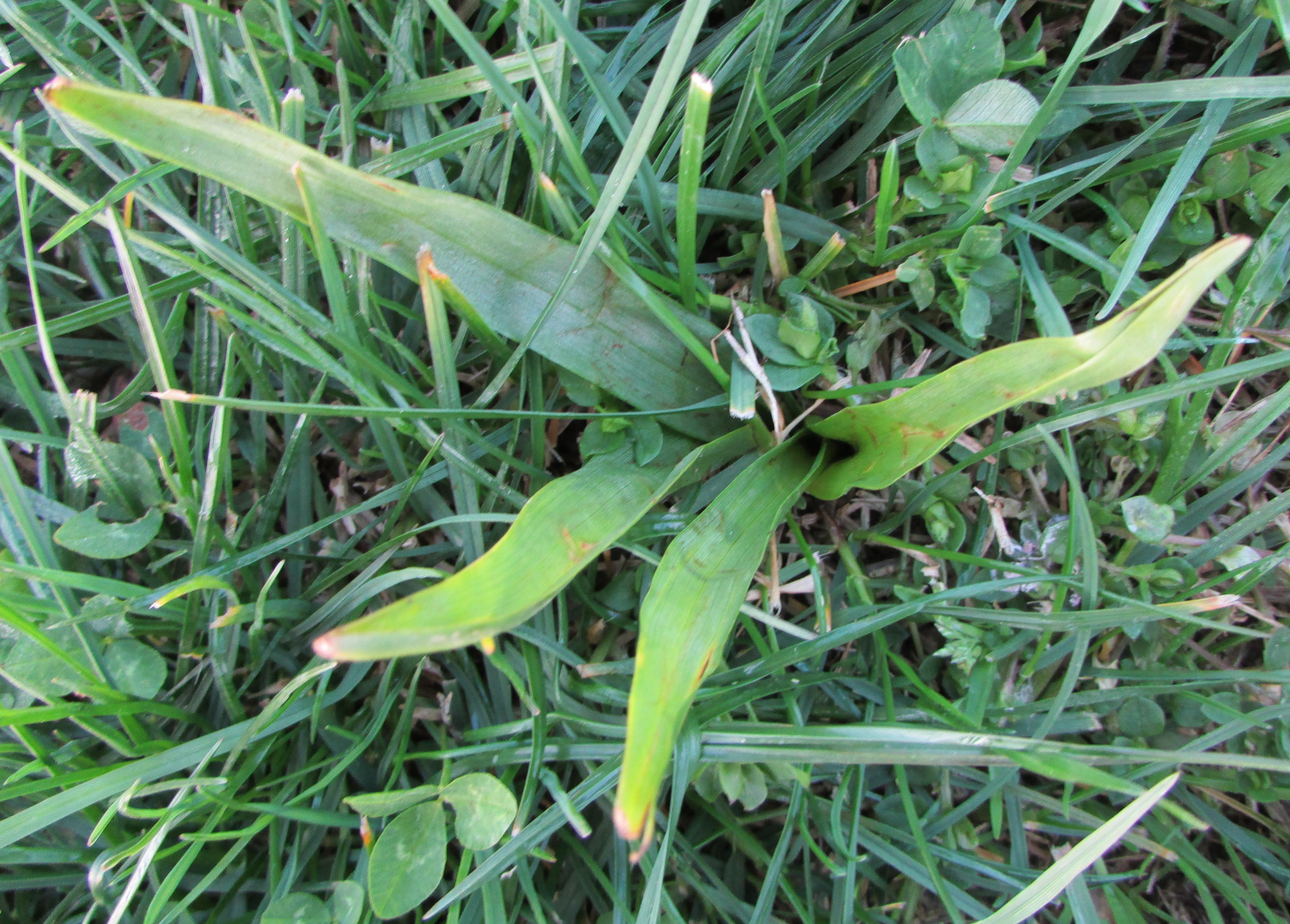 Colchicum lusitanum leaves in spring